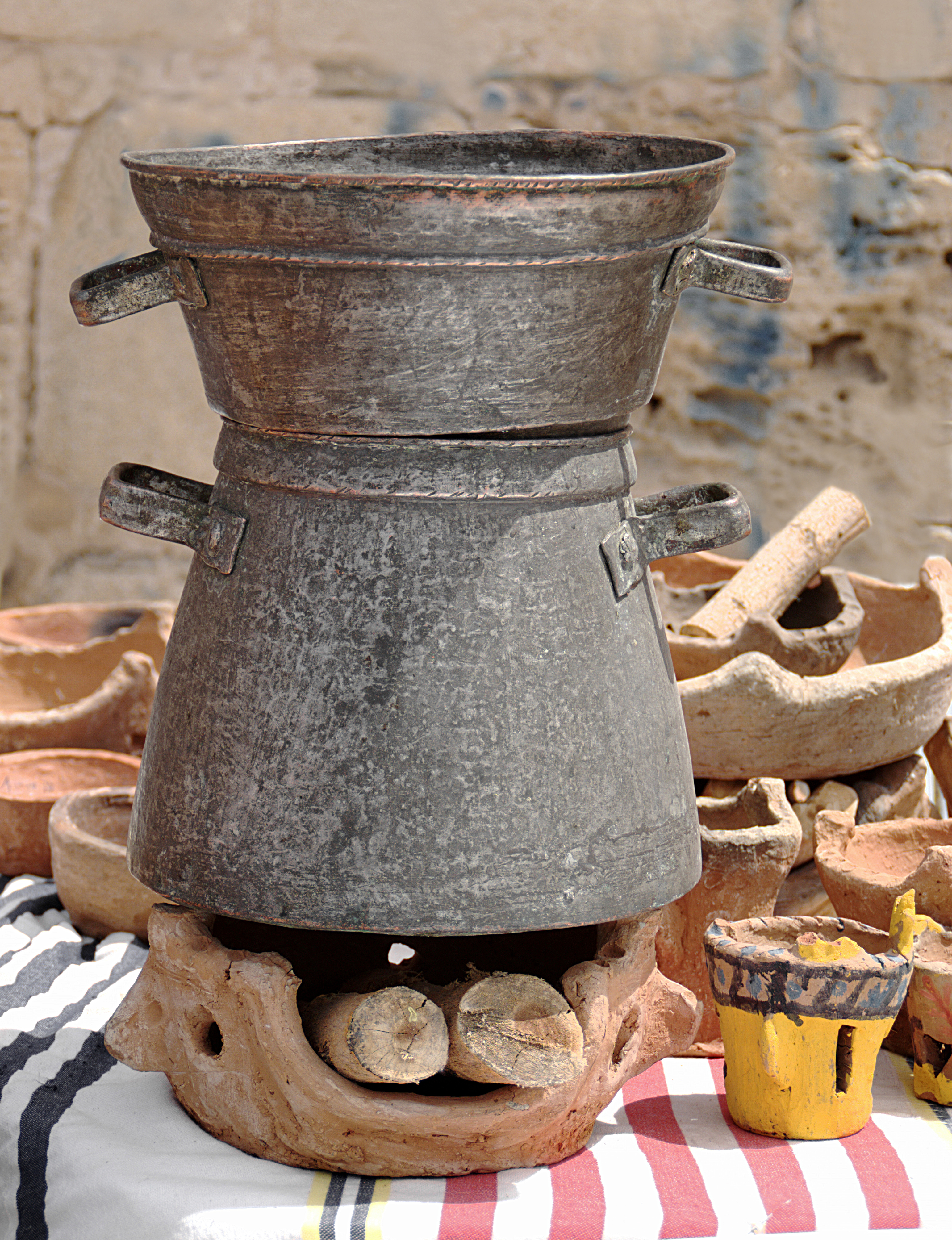 Traditional kitchen utensils of Tunisia